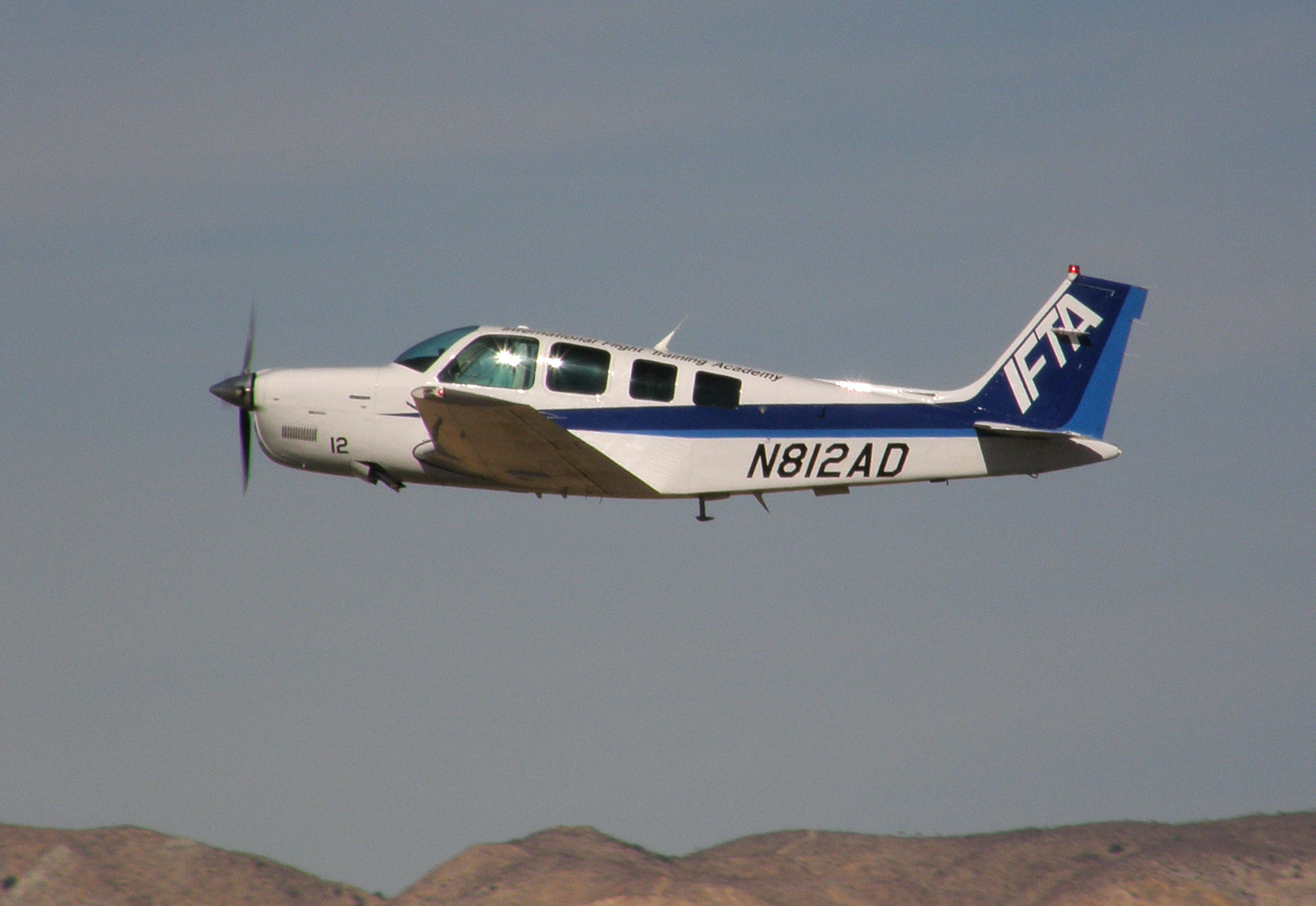 Beechcraft A36 Bonanza of the International Flight Training Academy, owned by All Nippon Airways, takes off from the Mojave Airport